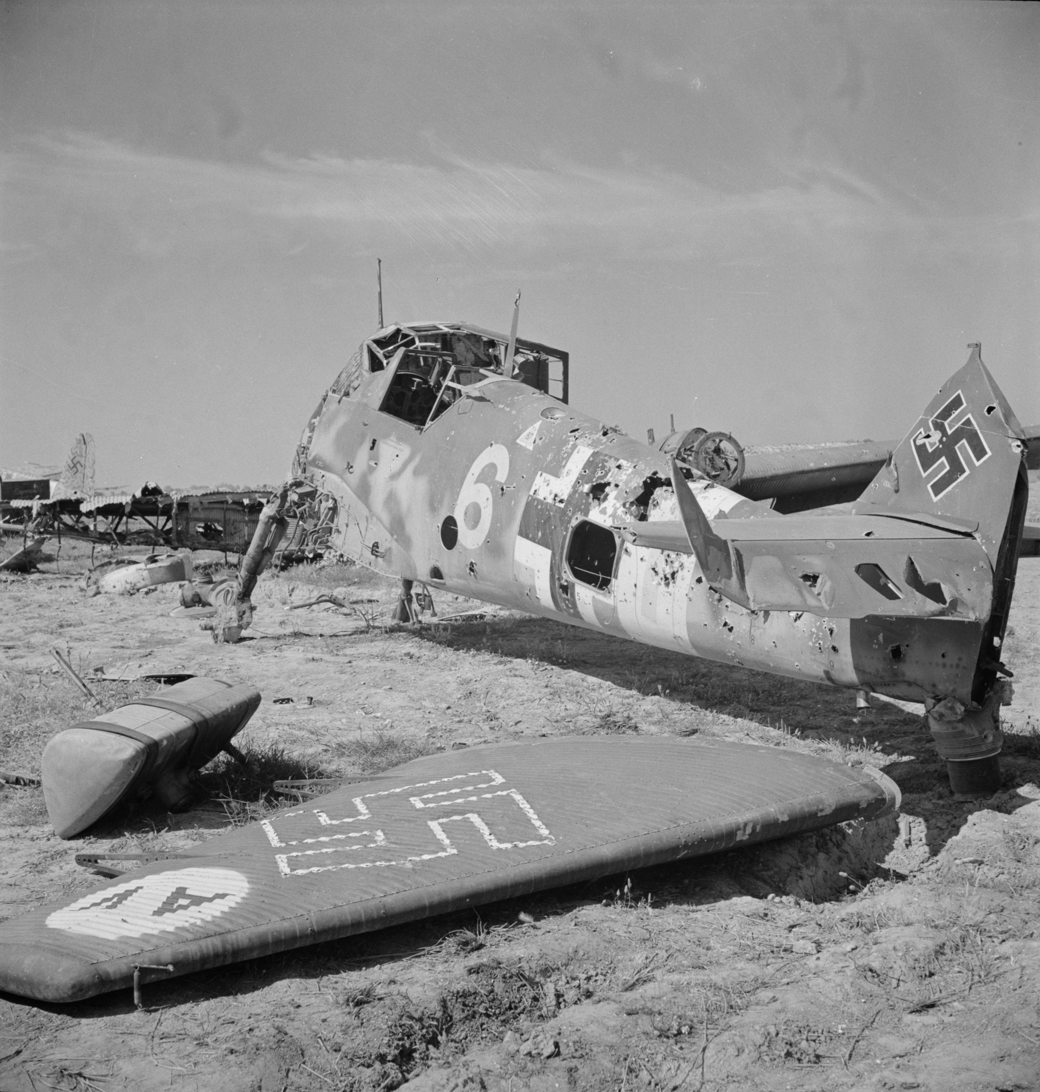 Wreck of German Messerschmitt Bf 109 F/G fighter at El Aouiana airport, Tunis, Tunisia, May 1943. It wears the marking "White or Yellow 6", which would have been the 6th plane of the 1st (white) or 3rd (yellow) squadron of a fighter wing (maybe JG 77).